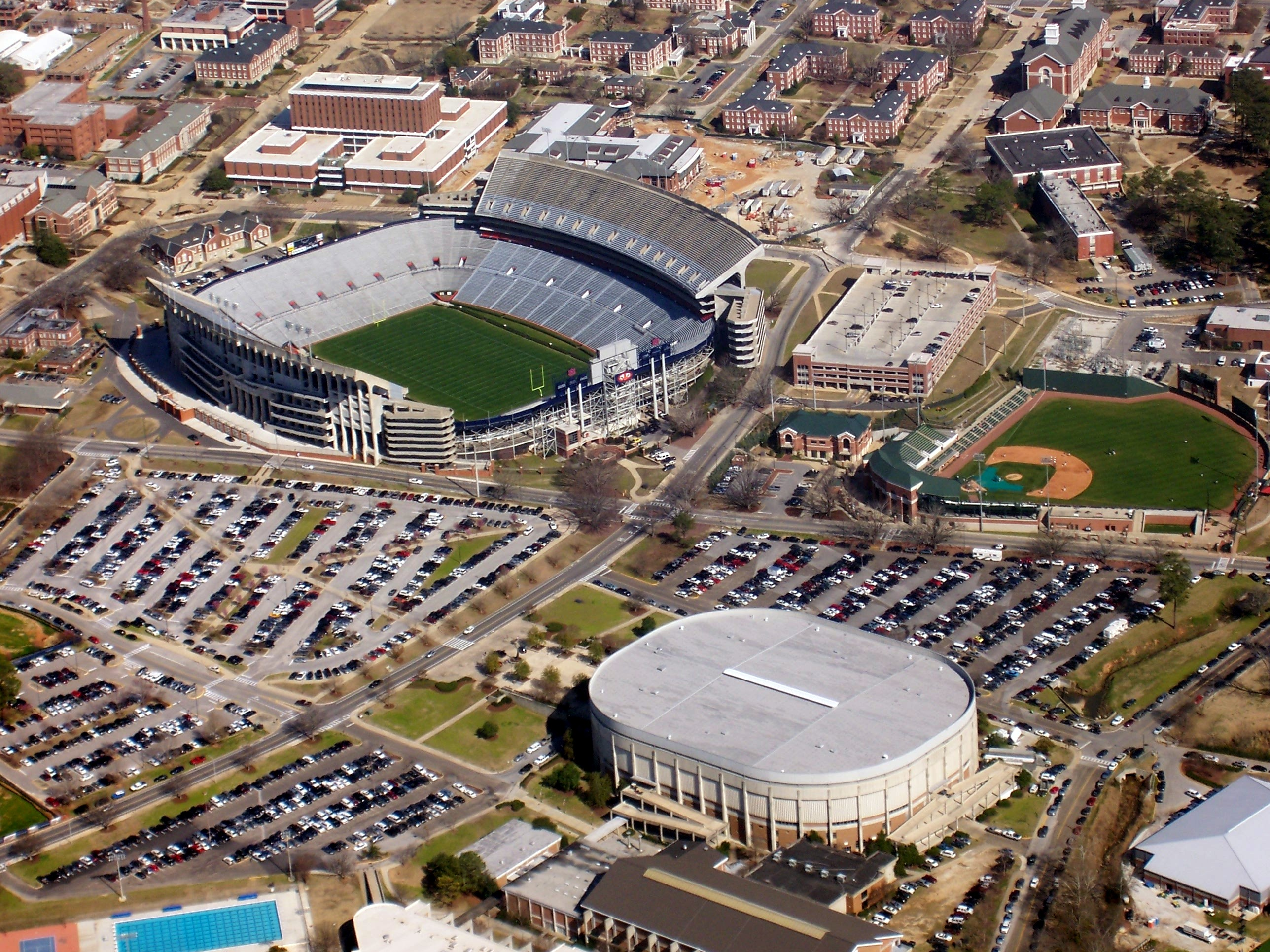 Jordan-Hare Stadium, Beard-Eaves-Memorial Coliseum, and Samford Stadium-Hitchcock Field at Plainsman Park on the Auburn University campus in Auburn, Alabama on 24 February 2008. Image was taken from approximately 1000 feet above ground level.